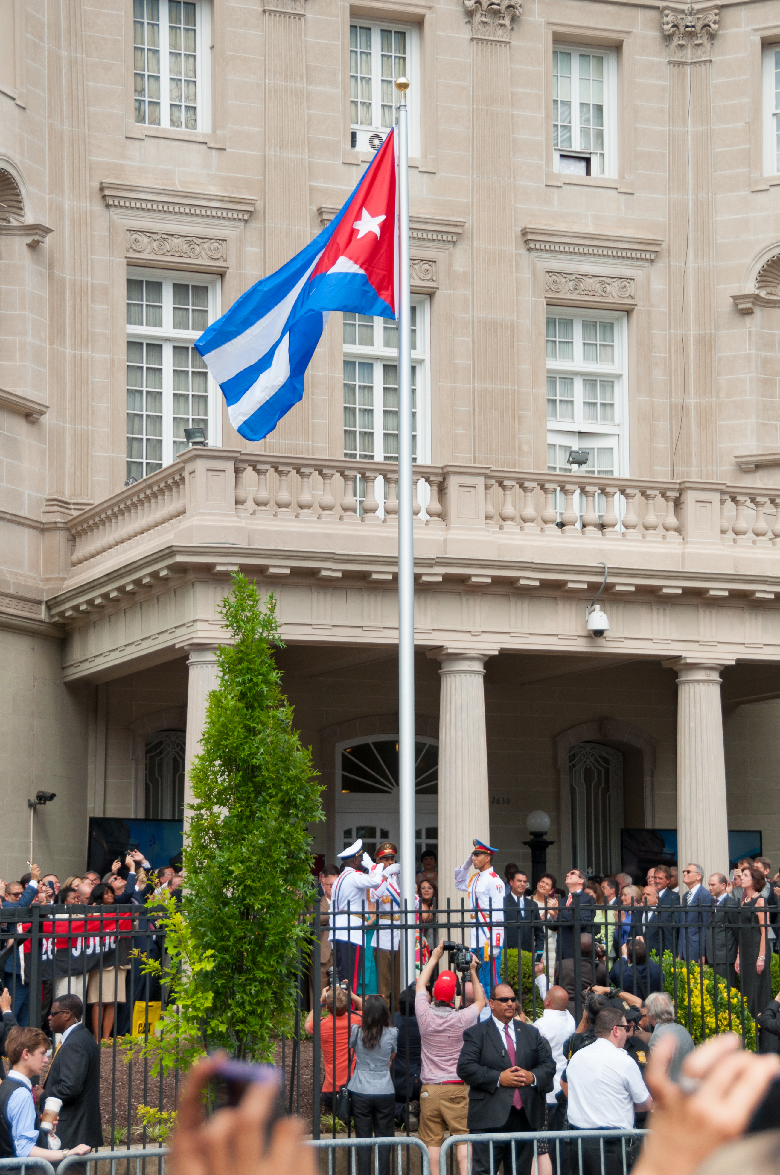 Cuban flag being raised outside of the newly reopened embassy in DC on July 20, 2015.